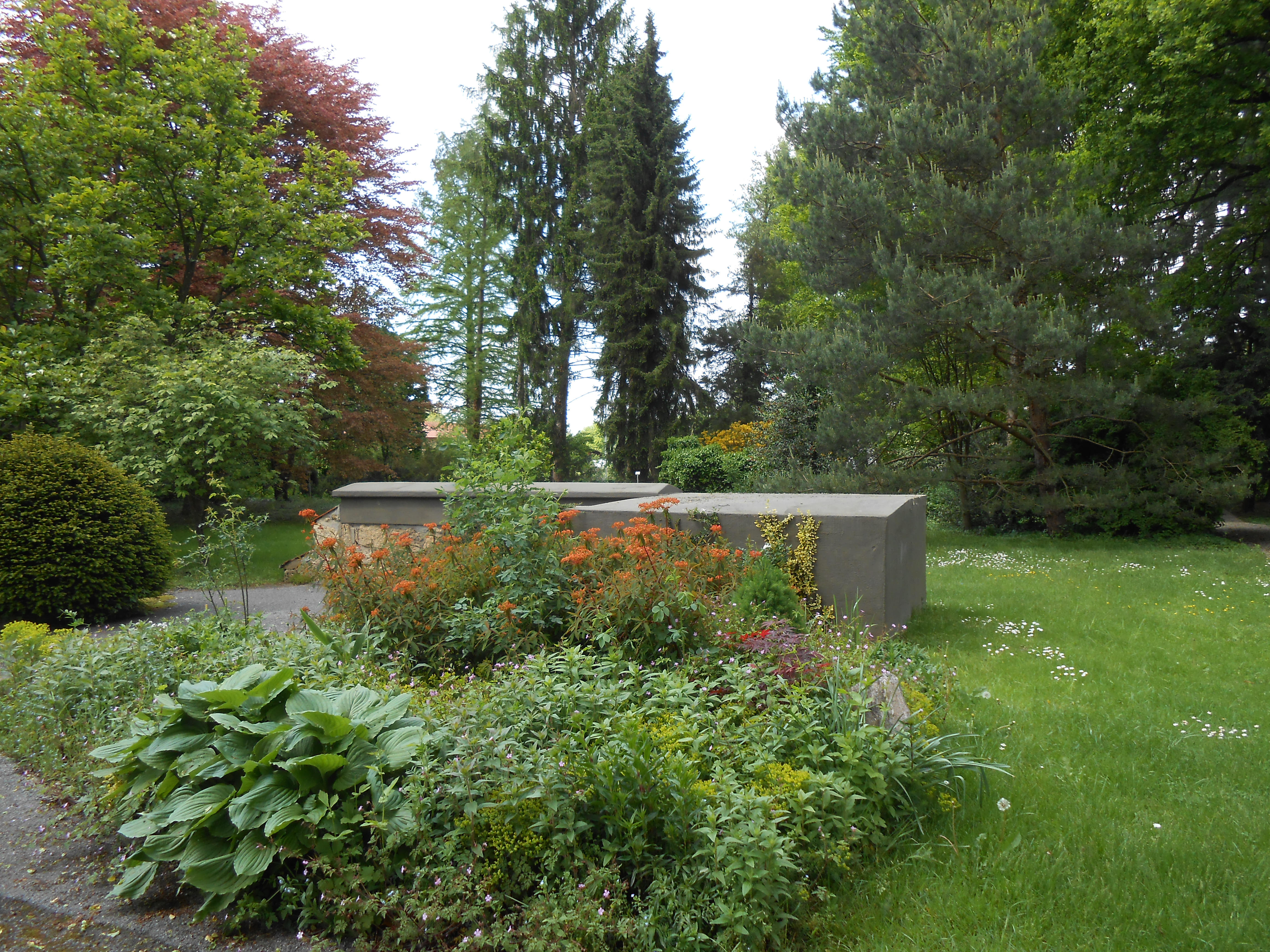 Sifter's family old home